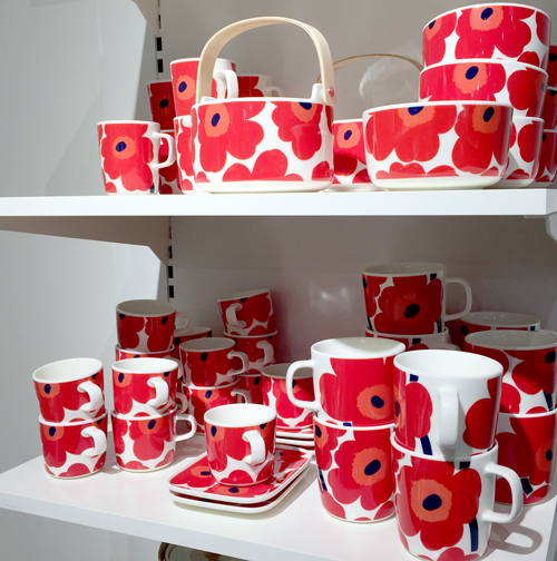 Unikko by Marimekko was released in 1964. The pattern was designed by Maija Isola.